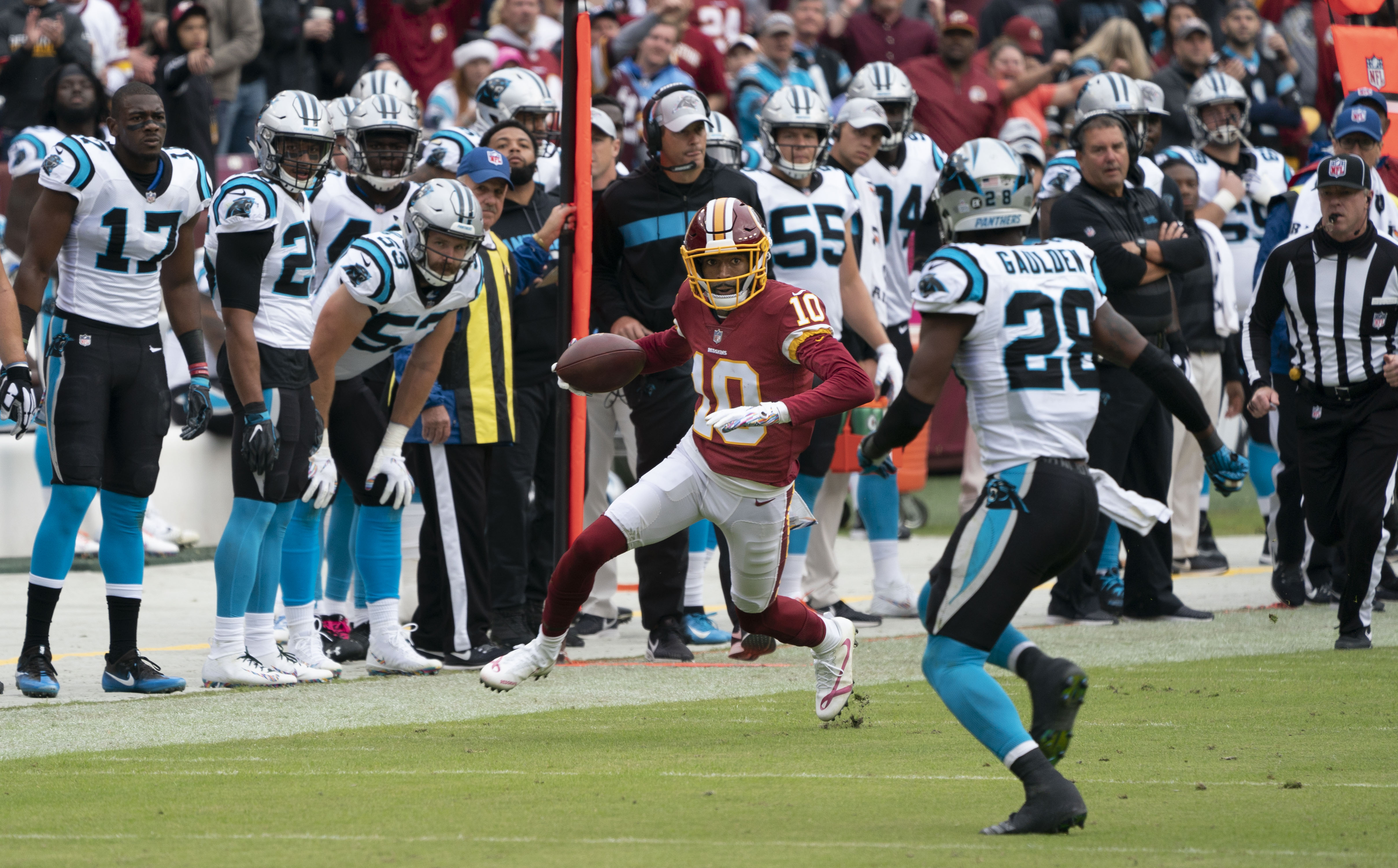 Panthers at Redskins 10/14/18